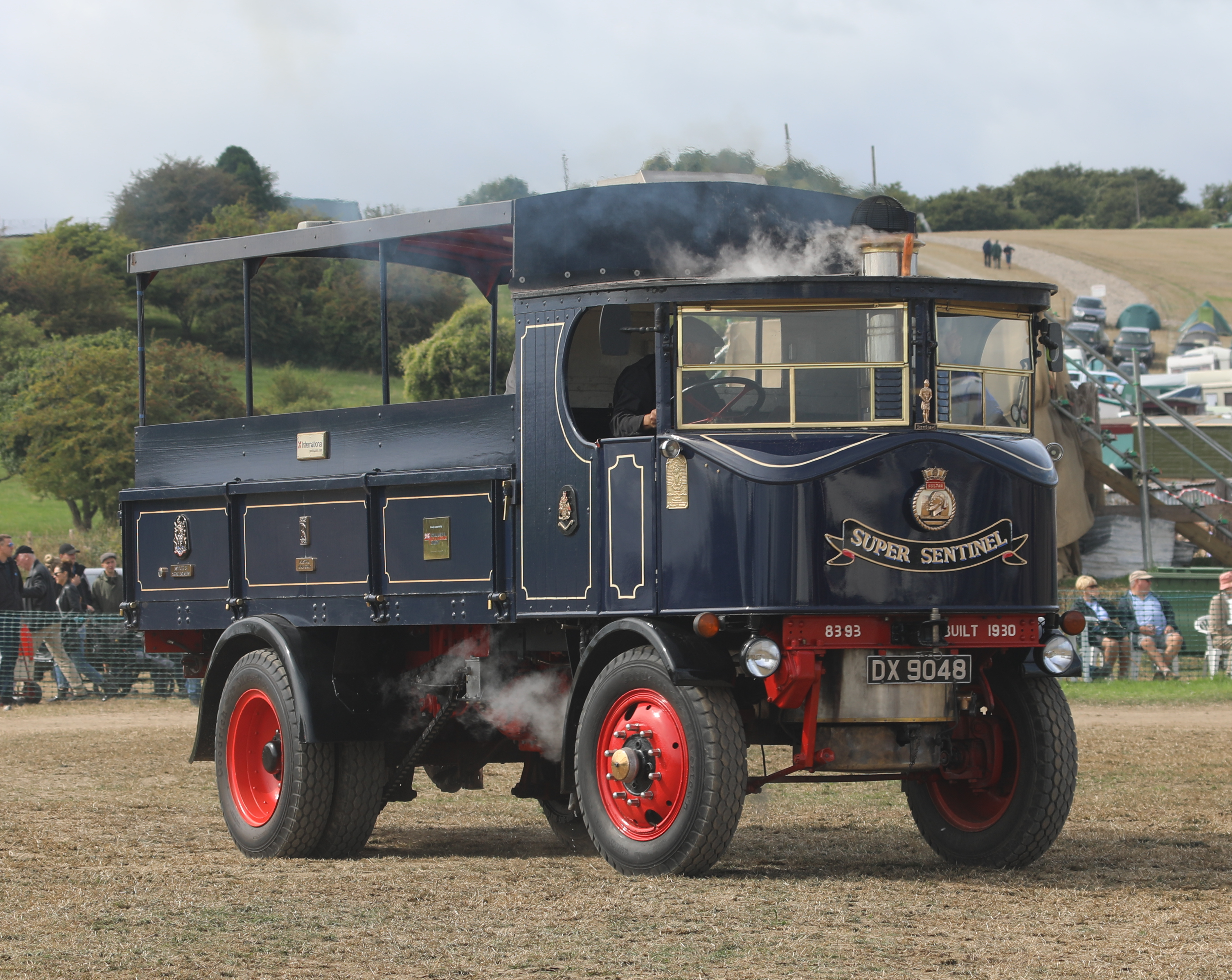 Photo of a super sentinel steam wagon DX 9084 originally dating from 1930 at great Dorset steam fair. 2018 GDSF program number 334